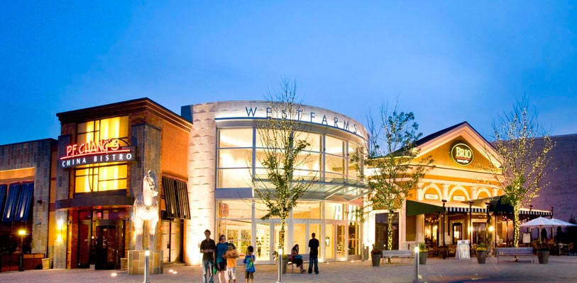 A photo taken outside WestFarms Mall